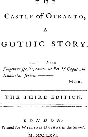 Front page of The Castle of Otranto, by Horace Walpole (1717-1797)